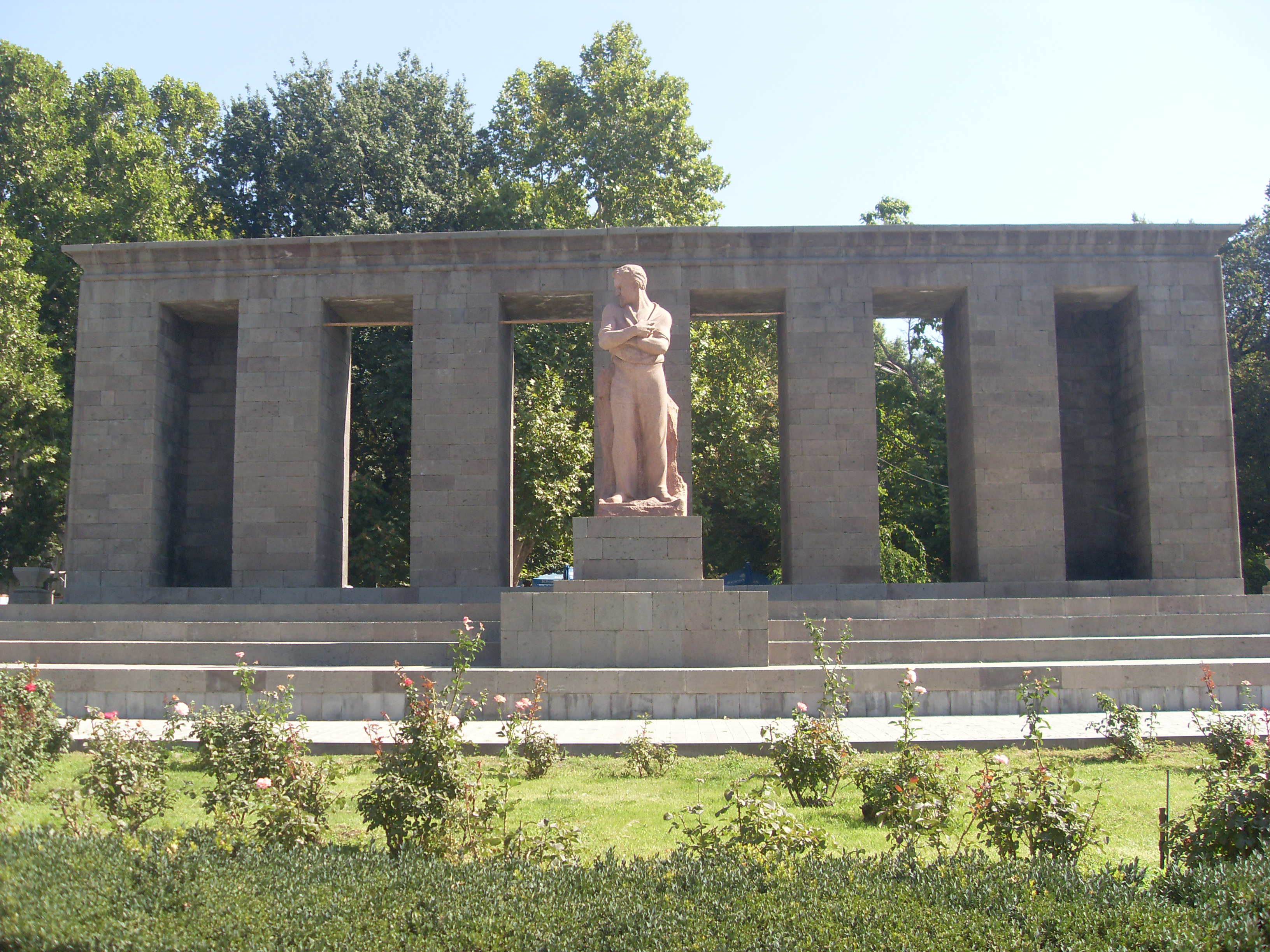 Monument of Stepan Shahumyan, sculptor S. Merkurov, architect I. Joltovski, 1931, The first official set monument in Yerevan.